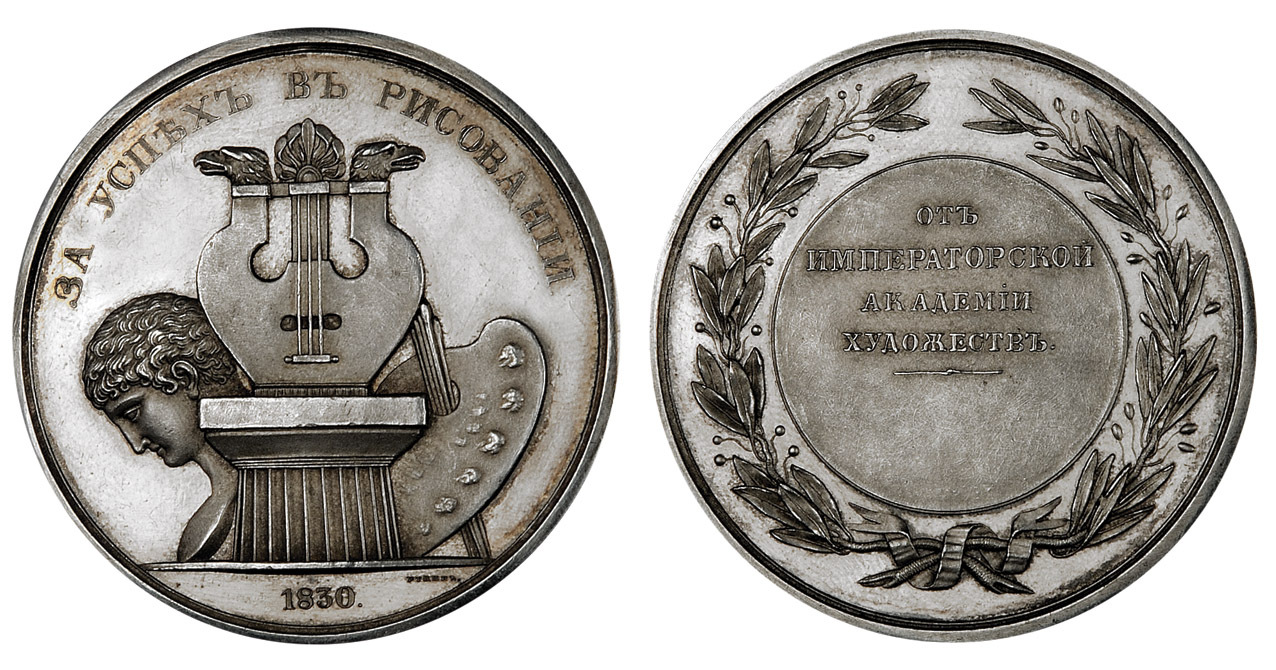 Award Medal of the Imperial Academy of Arts "for success in drawing"